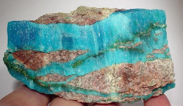 Kröhnkite, Natrochalcite Locality: Chuquicamata Mine, Chuquicamata District, Calama, El Loa Province, Antofagasta Region, Chile (Locality at ) Size: 9.2 x 5.0 x 4.7 cm. An exceptionally rich, old-time specimen of the rare sulfate, krohnkite, from the Type Locality, the Chuquicatmata Mine of Chile. The piece is beautifully complimented by the rare, emerald-green sulfate, natrochalcite. Chuquicamata is also the Type Locality for natrochalcite. Without question, this specimen exhibits the most intense teal blue color I have ever seen in a natural mineral specimen and has great translucence. And the variation in blue color, in itself, is very noteworthy. The veins exhibit what is classic for the species, lamellar growth of crystals in parallel bundles. The piece was purchased on September 11, 1939. Ex. Harvard and George Elling Collections.